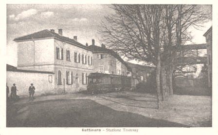 Gattinara, tramway station